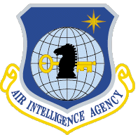 Emblem of the Air Intelligence Agency (AIA) of the United States Air Force. Headquarters is at Lackland Air Force Base, Texas, USA.